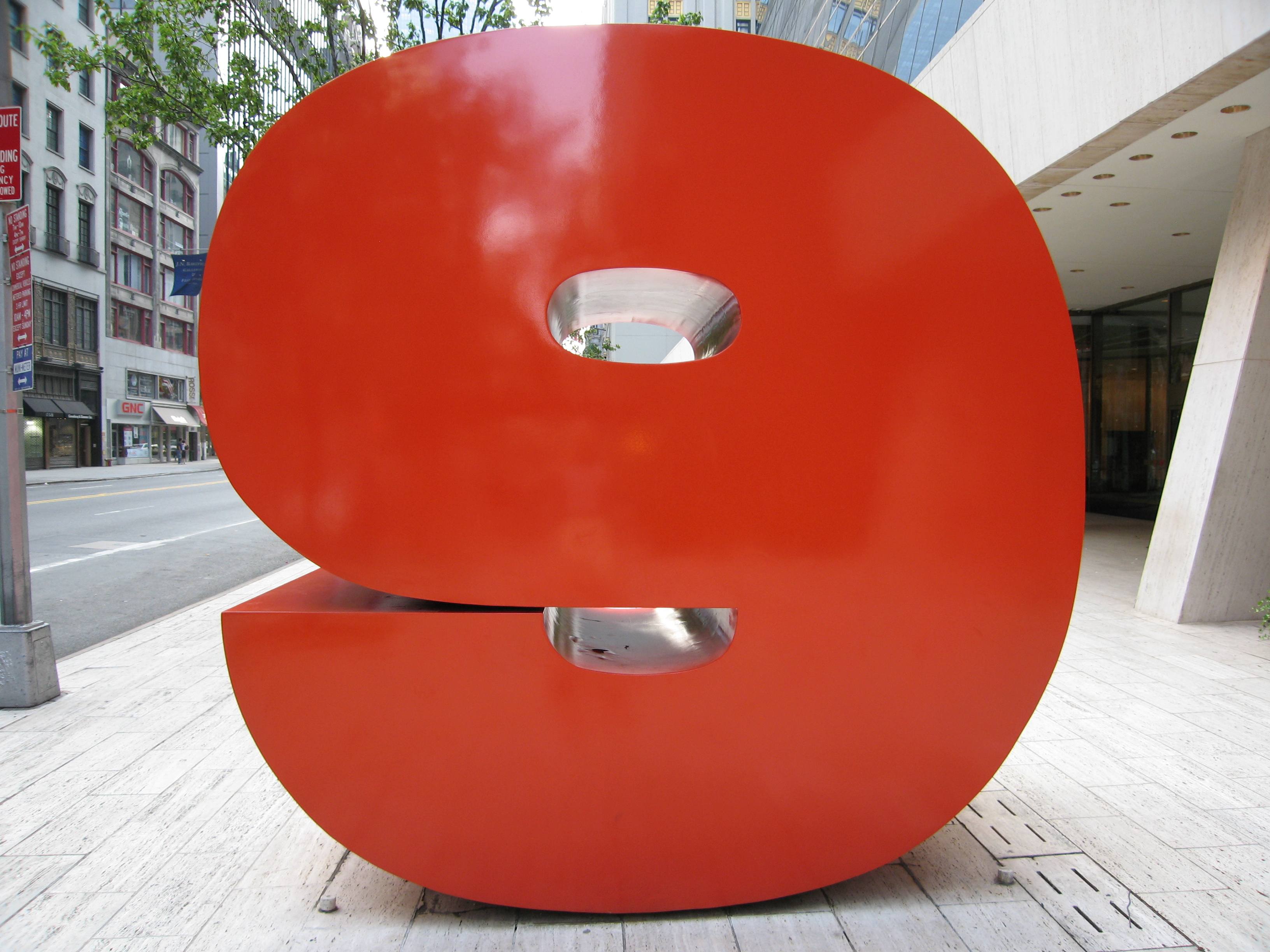 ".....A distinctive red number "9," a two-ton sculpture designed by Ivan Chermayeff, provided the final touch. When the humongous red digit arrived, Solow, Chermayeff and Bunshaft spent hours directing workmen to haul it back and forth around the building's plaza as they argued about its placement. In the end, Solow worked out a deal with the city to rent a piece of sidewalk out front for $1,000 a year. The initial reaction to the building was by no means favorable. In its biennial architectural awards, the Fifth Avenue Association complained that "the Solow building has bad manners," saying that the building broke the street line and disrupted the scale of the buildings around it. But Solow was nonplussed. "In 20 years," he predicted, "that whole block will be developed at this scale, and I think my building will set the standard." He was right, and the success at 9 West 57th catapulted Solow into a new league. In 1972, Avon Products moved into the building, renting 21 floors — more than 420,000 square feet — at $13.50 a square foot. The company later expanded, taking up 25 floors and signing a multi-year lease valued at more than $225 million."